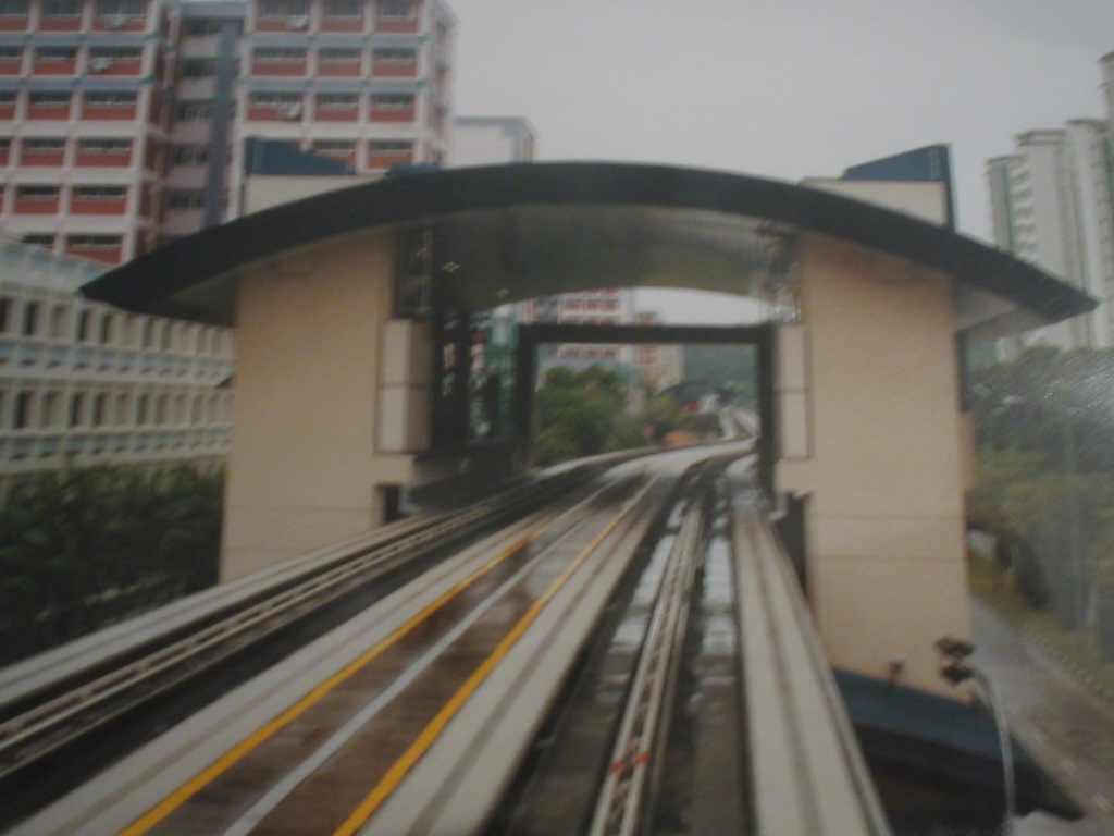 Light rail/people mover station, Singapore